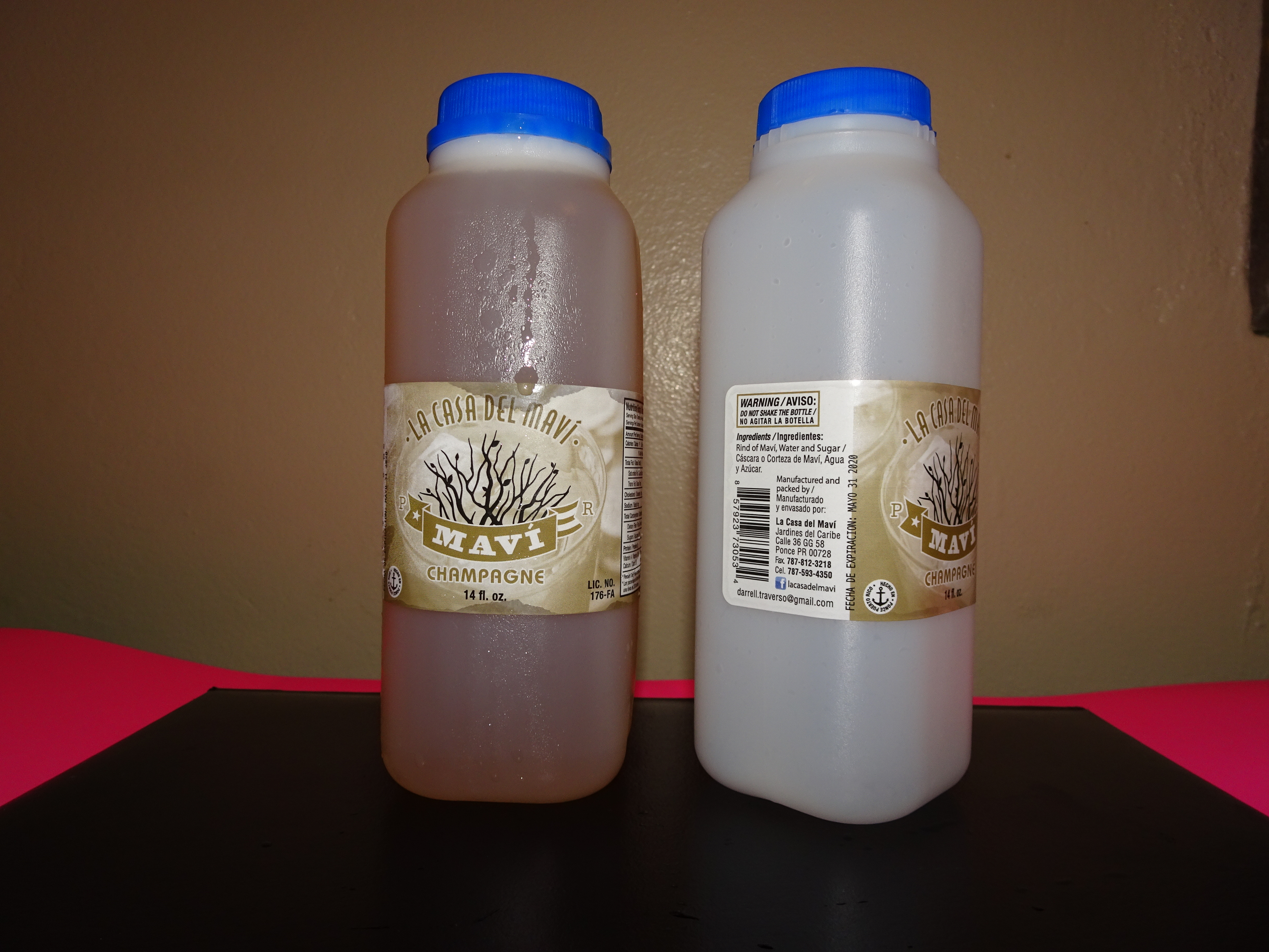 Botellas de Maví (izq. - llena, der. - vacía), en Ponce, Puerto Rico (DSC02261)